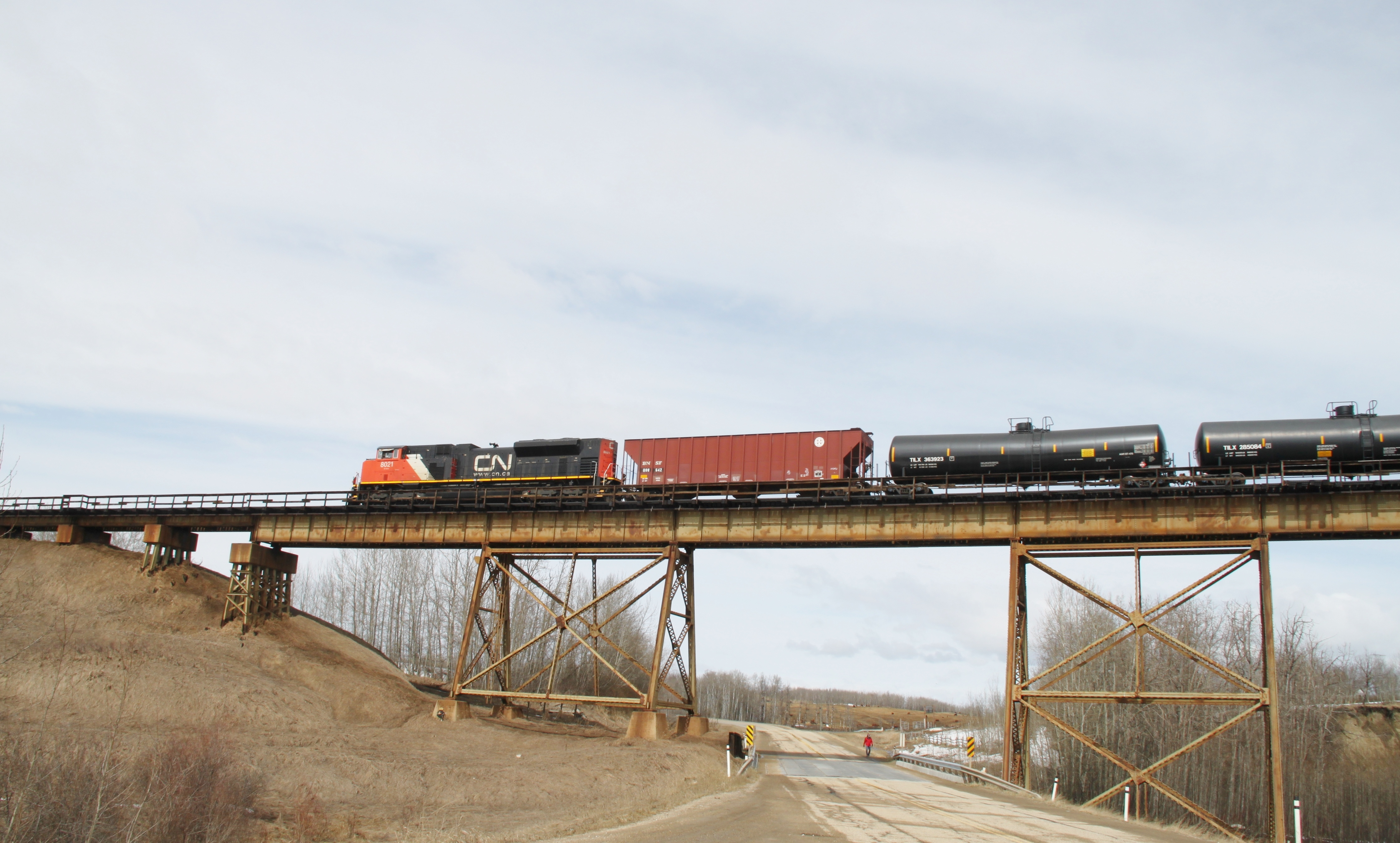 Westbound CNR engine and cars cross the Magnolia Bridge over Range Road 757, which leads to the old Magnolia townsite.